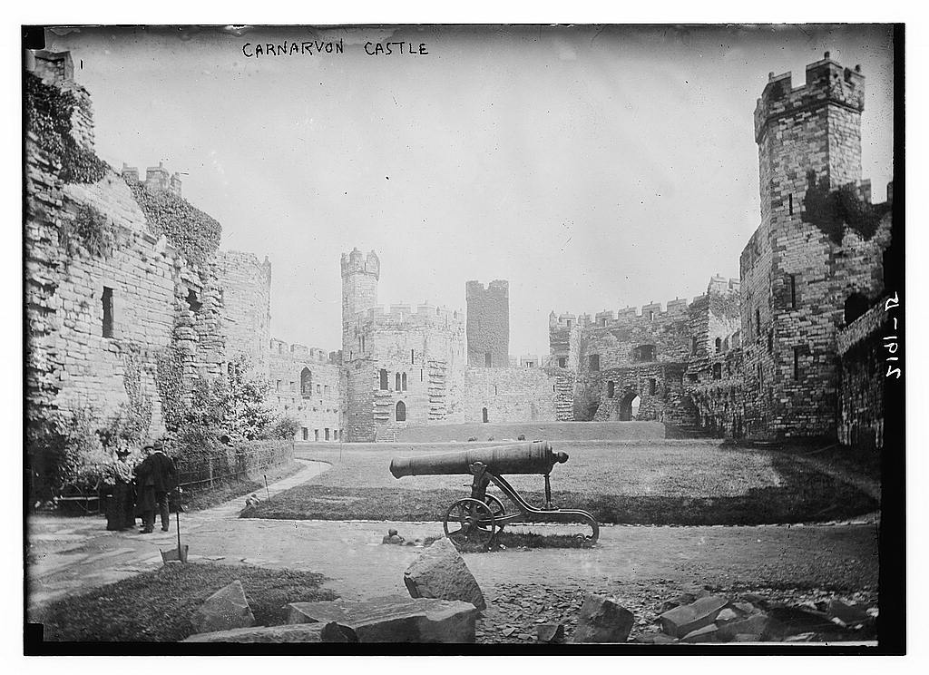 Bain News Service, publisher. Carnarvon Castle [between 1910 and 1915] 1 negative : glass ; 5 x 7 in. or smaller. Notes: Title from unverified data provided by the Bain News Service on the negatives or caption cards. Forms part of: George Grantham Bain Collection (Library of Congress). Format: Glass negatives. Repository: Library of Congress Prints and Photographs Division Washington, D.C. 20540 USA General information about the Bain Collection is available at Persistent URL: Call Number: LC-B2- 2191-15